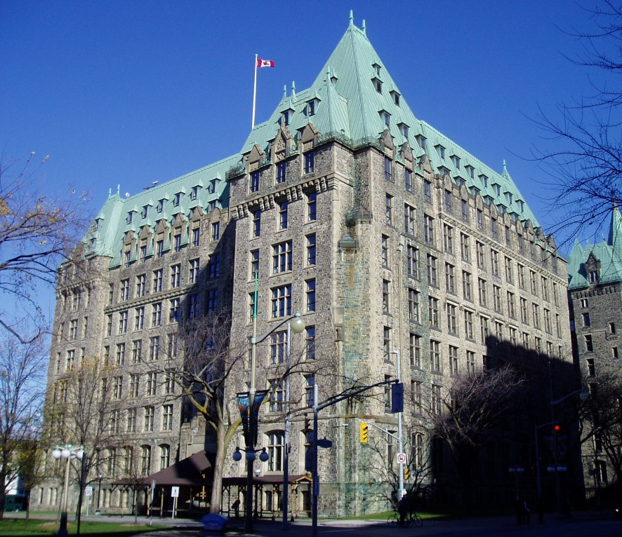 This is the former Justice Building in Ottawa. Ontario, Canada, which now houses the offices of Canadian Members of Parliament. Taken by SimonP